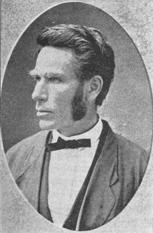 Gilbert De La Matyr (Indiana Congressman)